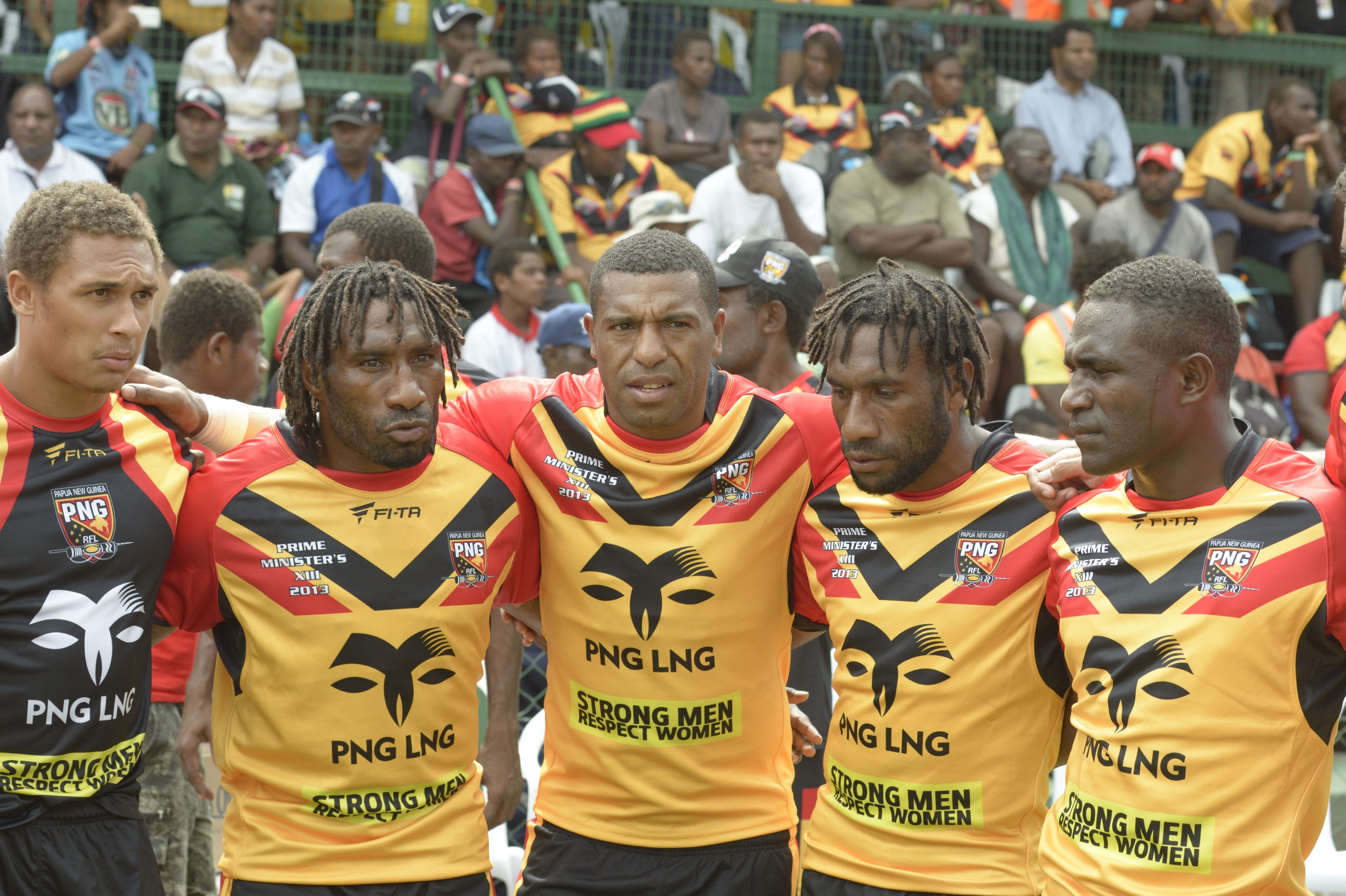 PNG players during rugby league match between Papua New Guinea and australian Prime Minister's XIII in Kokopo, PNG.